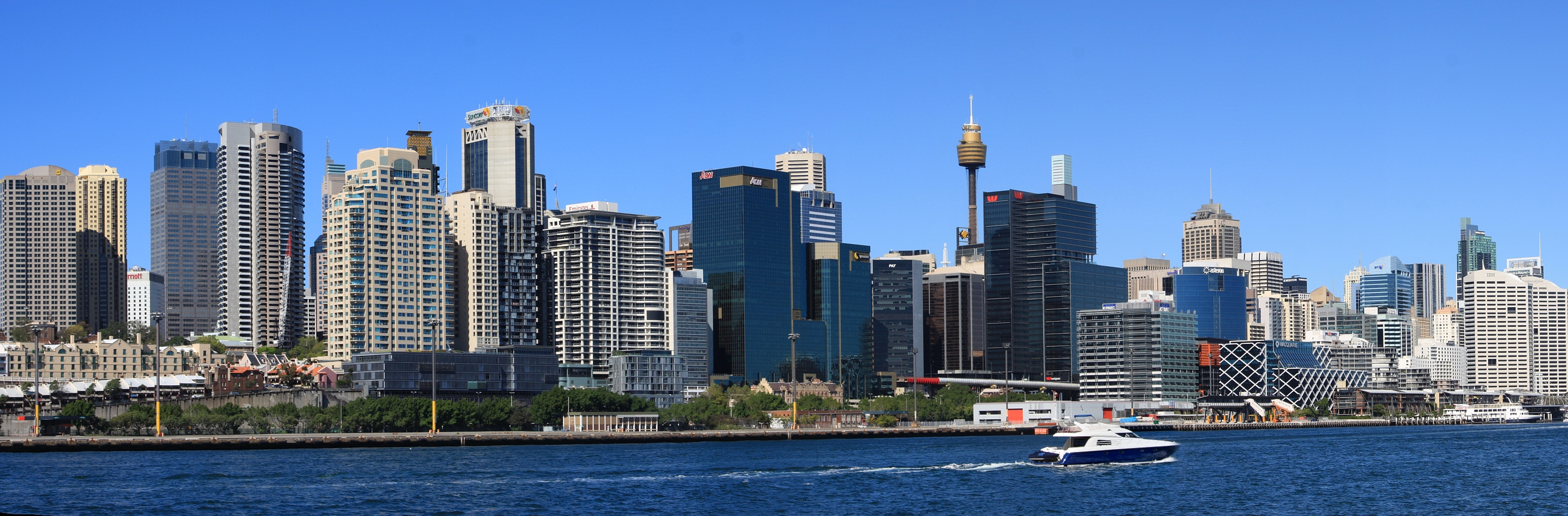 Sydney, seen from Balmain